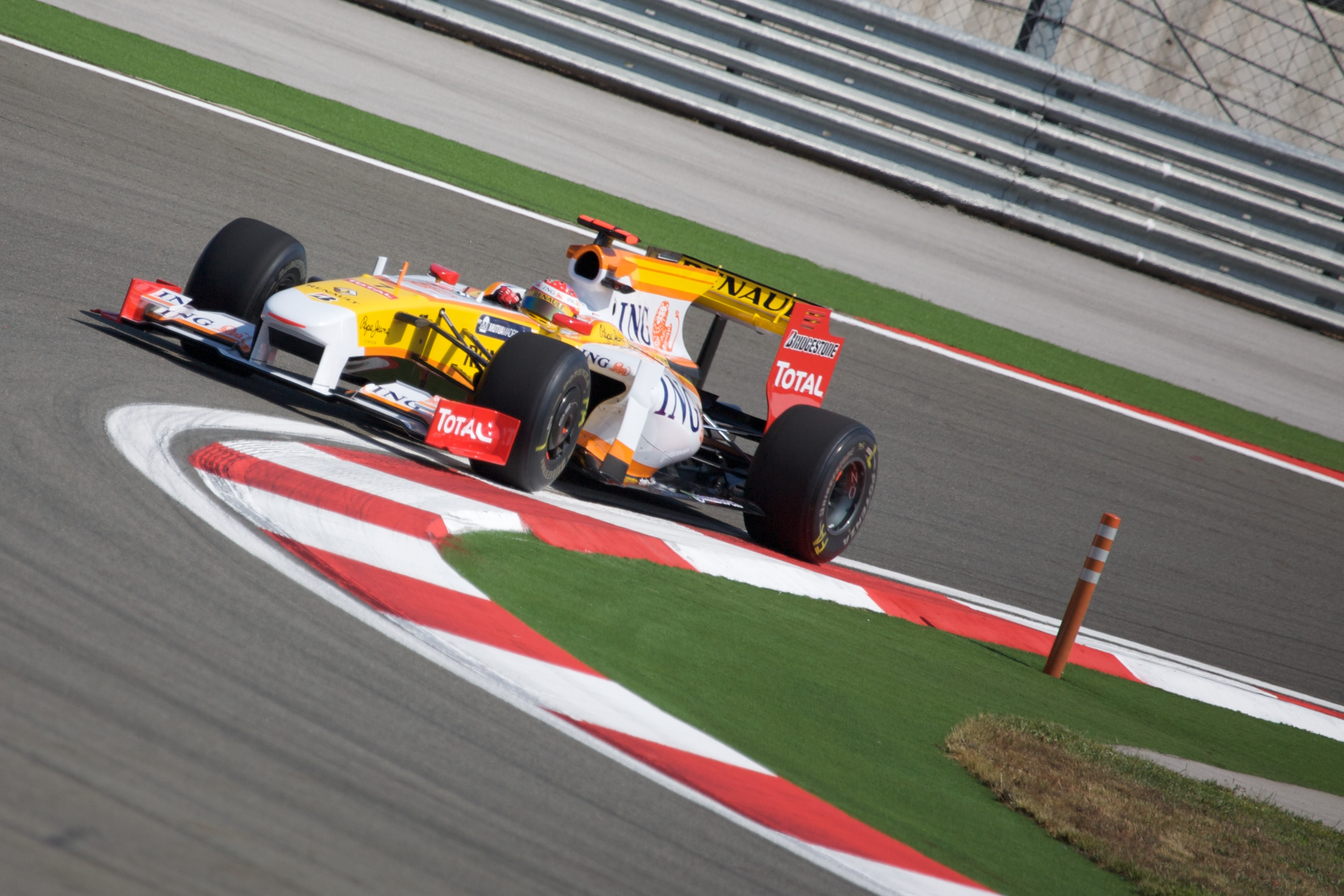 Fernando Alonso driving for Renault F1 at the 2009 Turkish Grand Prix.